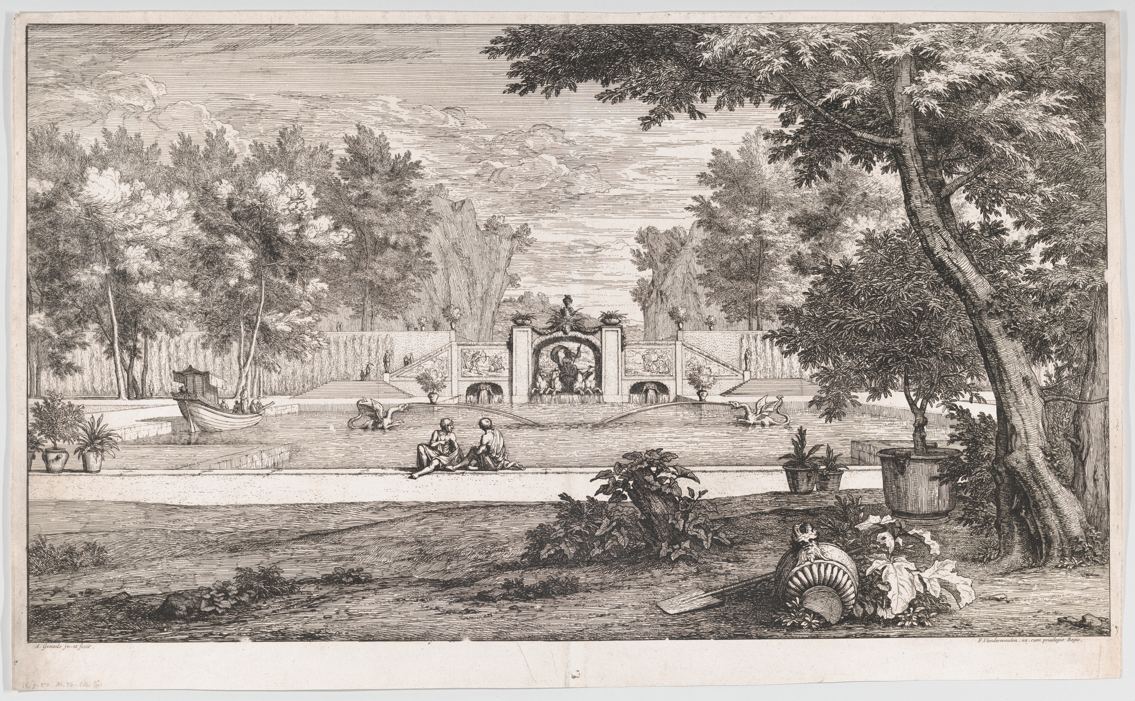 Print; Prints